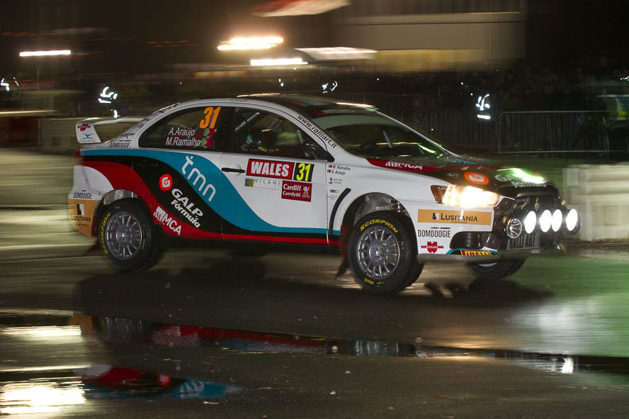 Wales Rally GB 2010 Armindo Araujo,Miguel Ramalho,Mitsubishi Lancer Evolution X,Ralliart Italy,Rally,Rallye,WRC